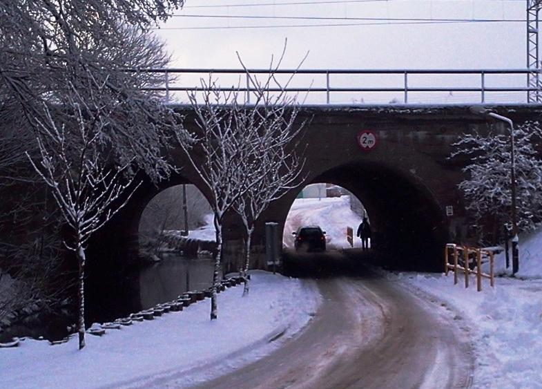 Łobez - Łoźnica w tunelu